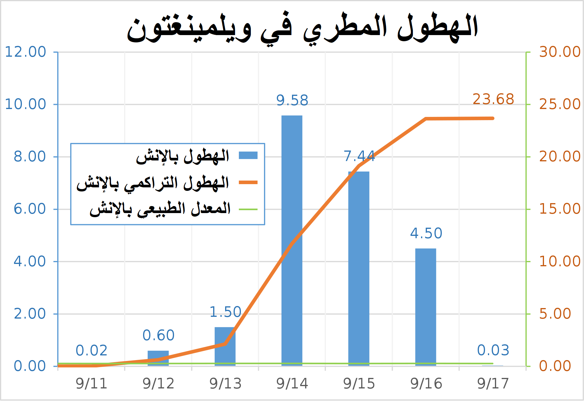 Hurricane Florence Precipitation in Wilmington, NC Hurricane.